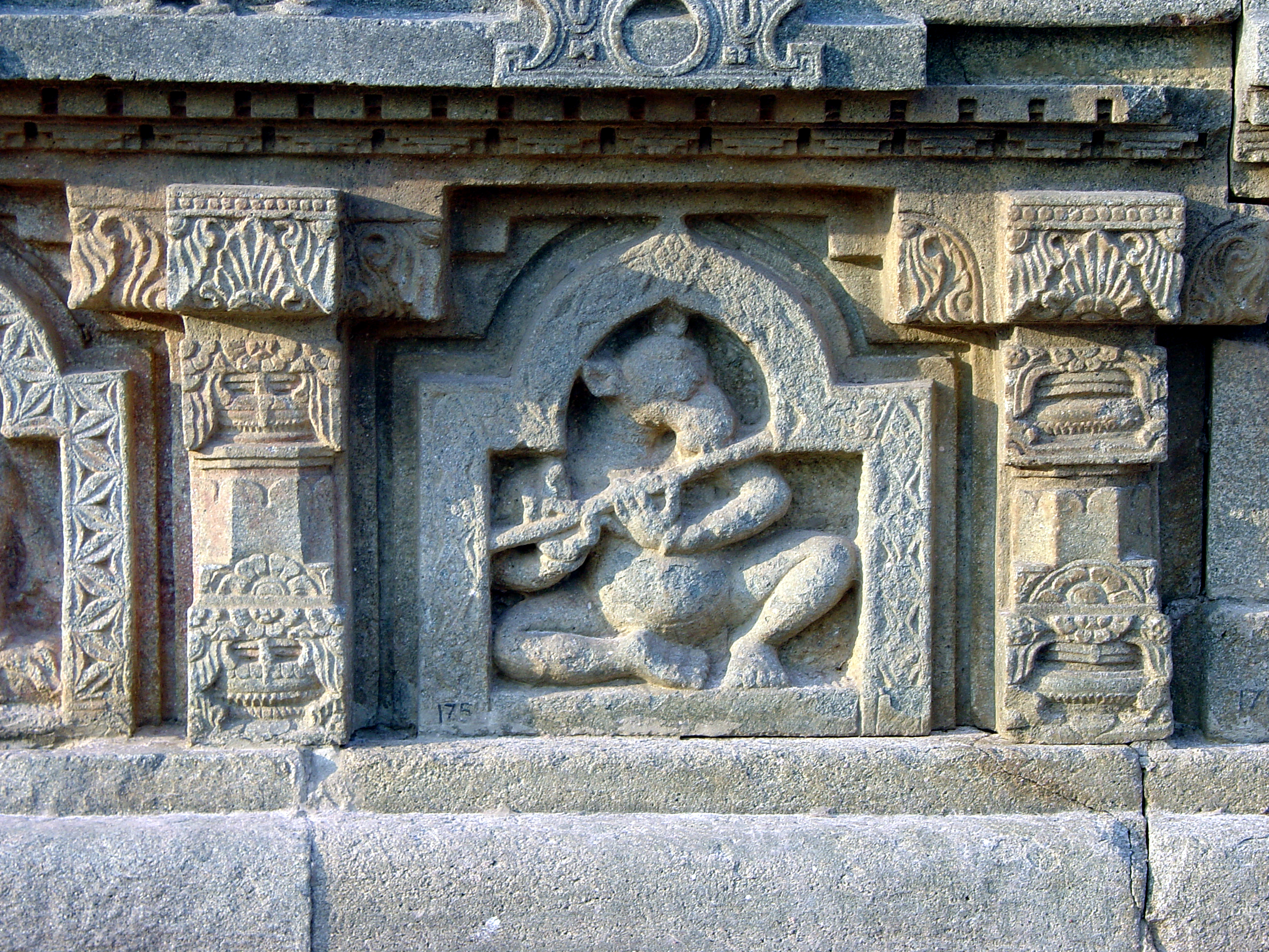 Animal-headed Musician. South face panel reliefs, Temple 2, Nalanda. 7th century A seated musician, with the head of an indeterminate animal, is playing the flute. The kalasha columns on either side are topped by palmettes.